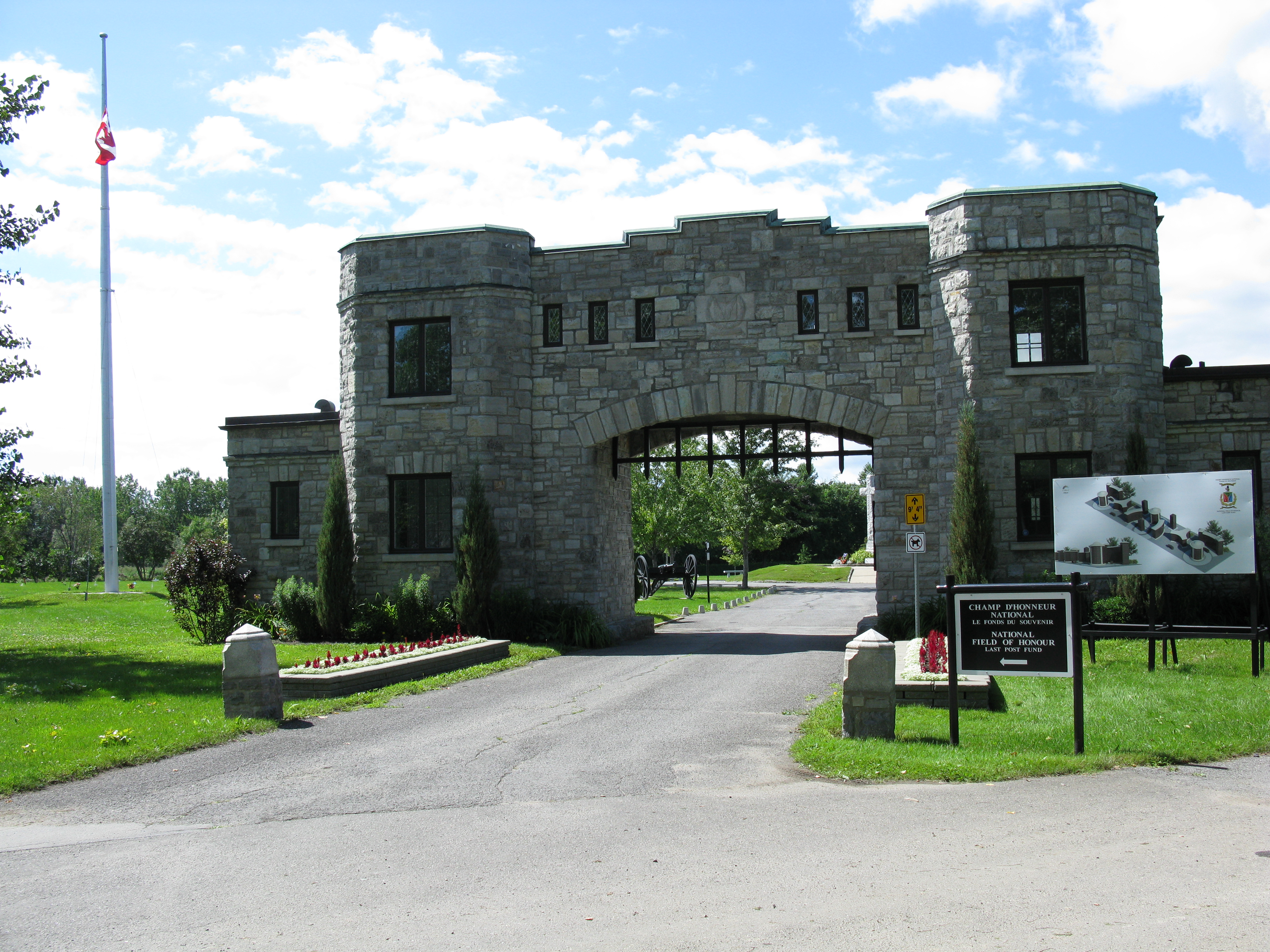 National Field of Honour Cemetary Gates.